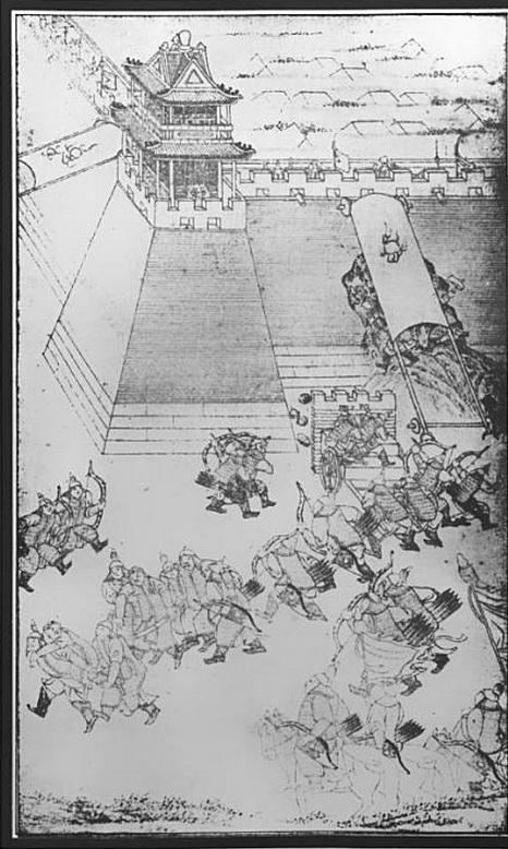 Early bombs being used at the siege of Ningyuan against Manchu assault ladders. The pictures are illustrations from the book Thai Tsu Shih Lu Thu (Veritable Records of the Great Ancestor), written in 1635.